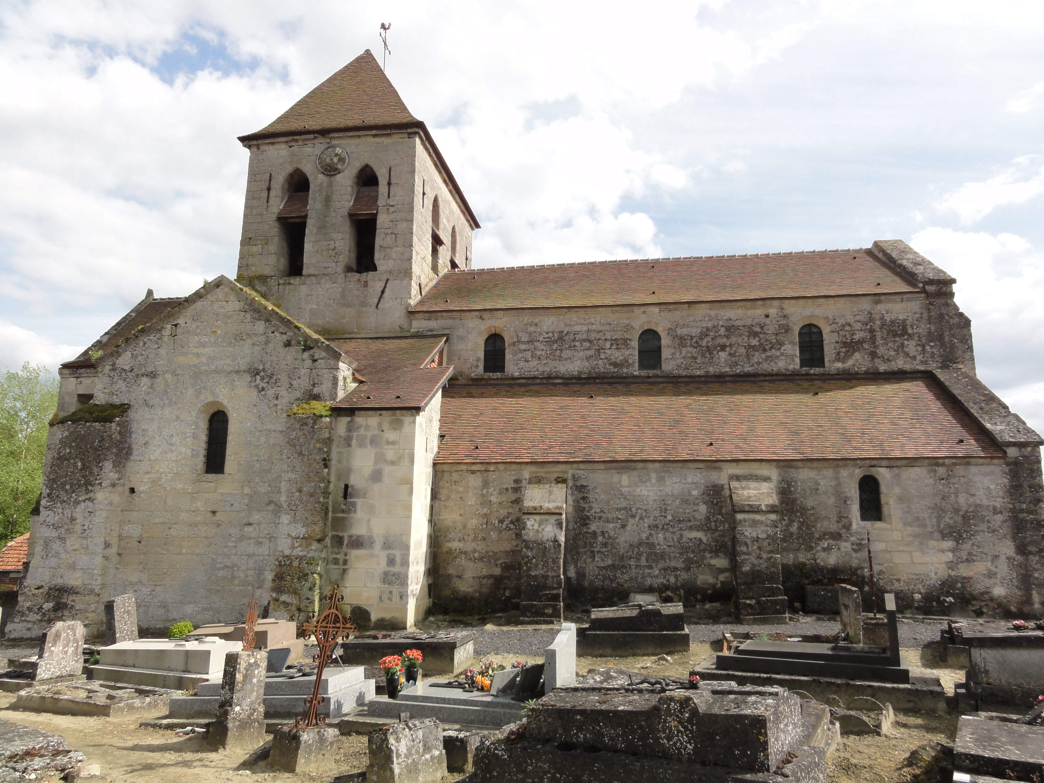 Chivy-lès-Étouvelles (Aisne) Église Saint-Pierre-aux-Liens